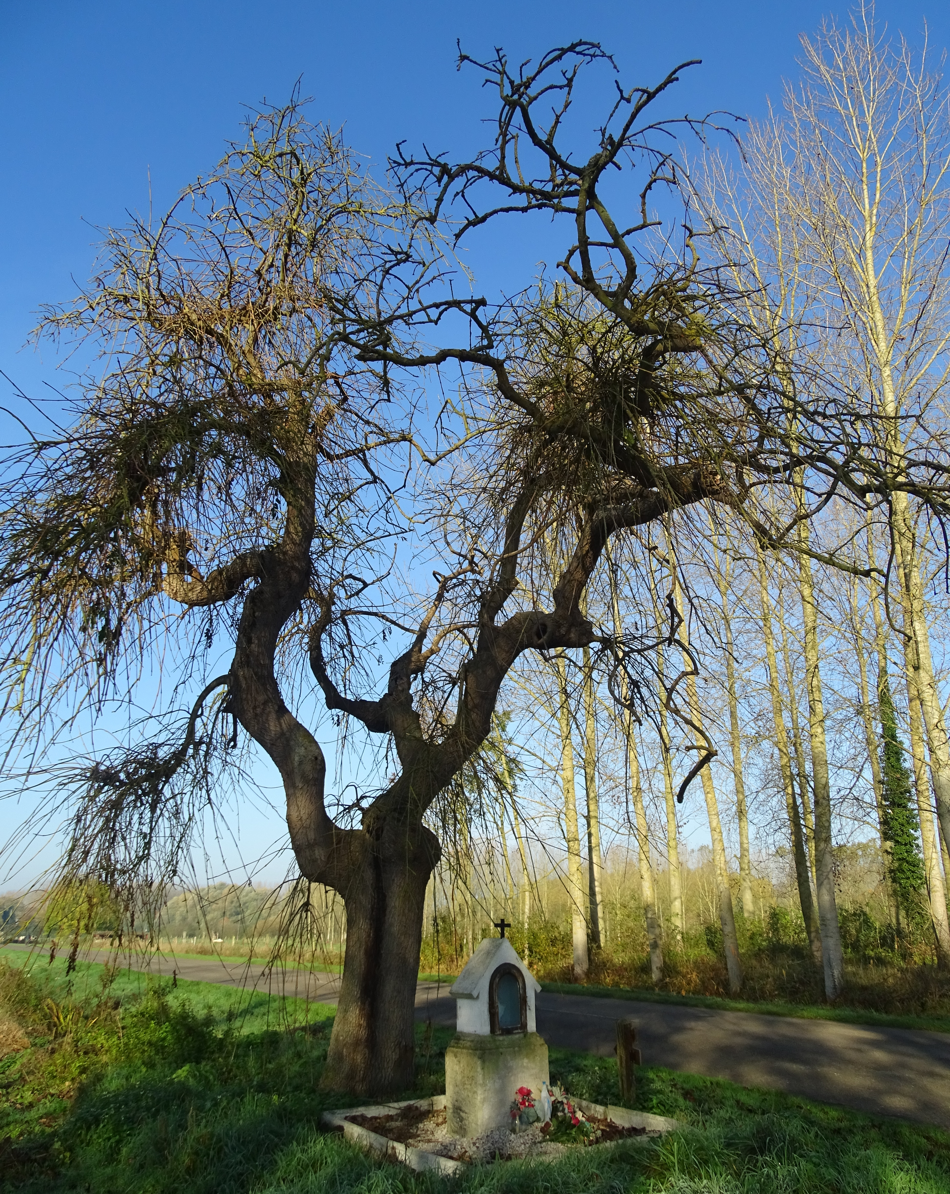 Depicted place: Q44395139